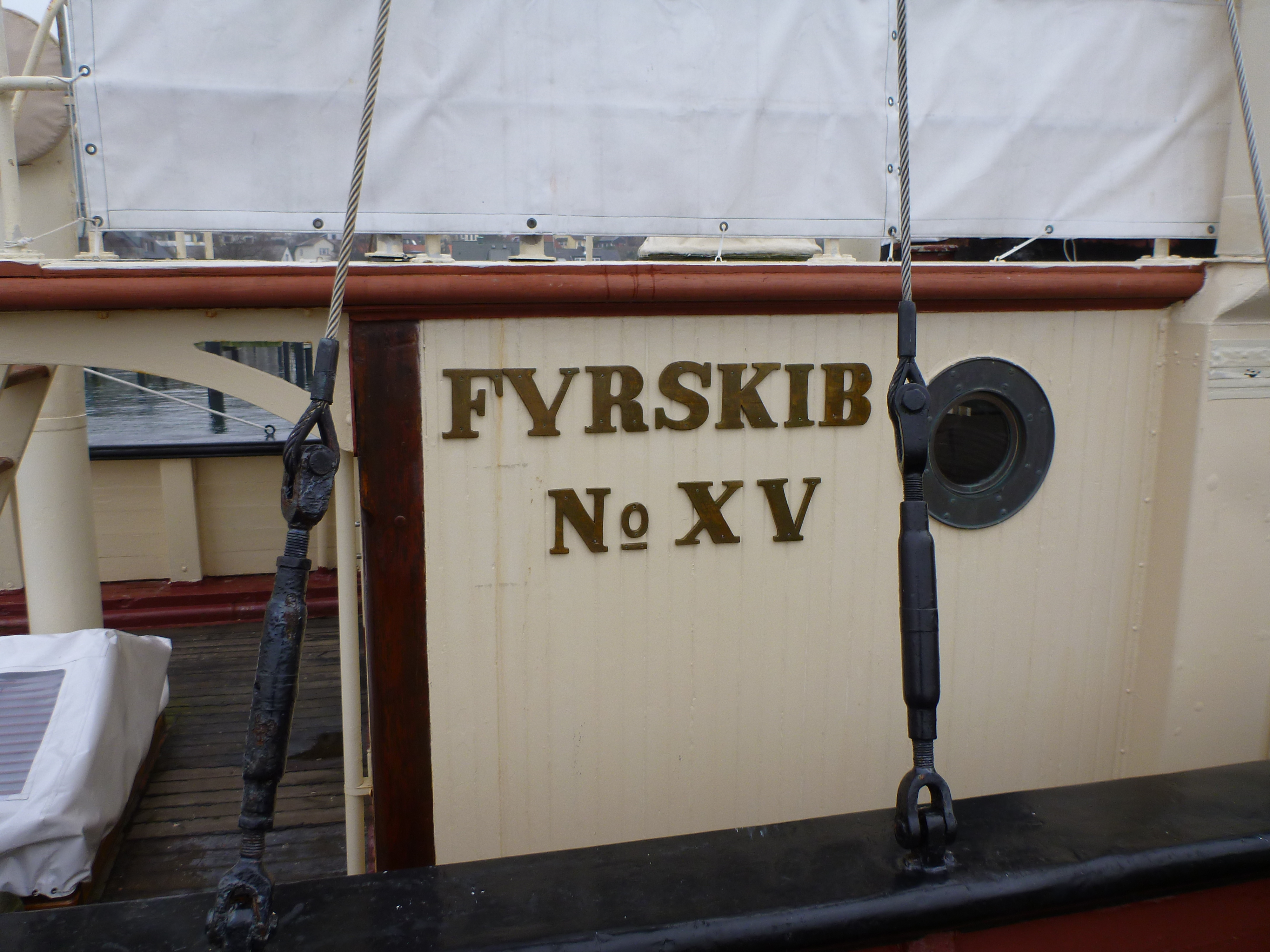 Number of Lightship Laesoe Rende XV